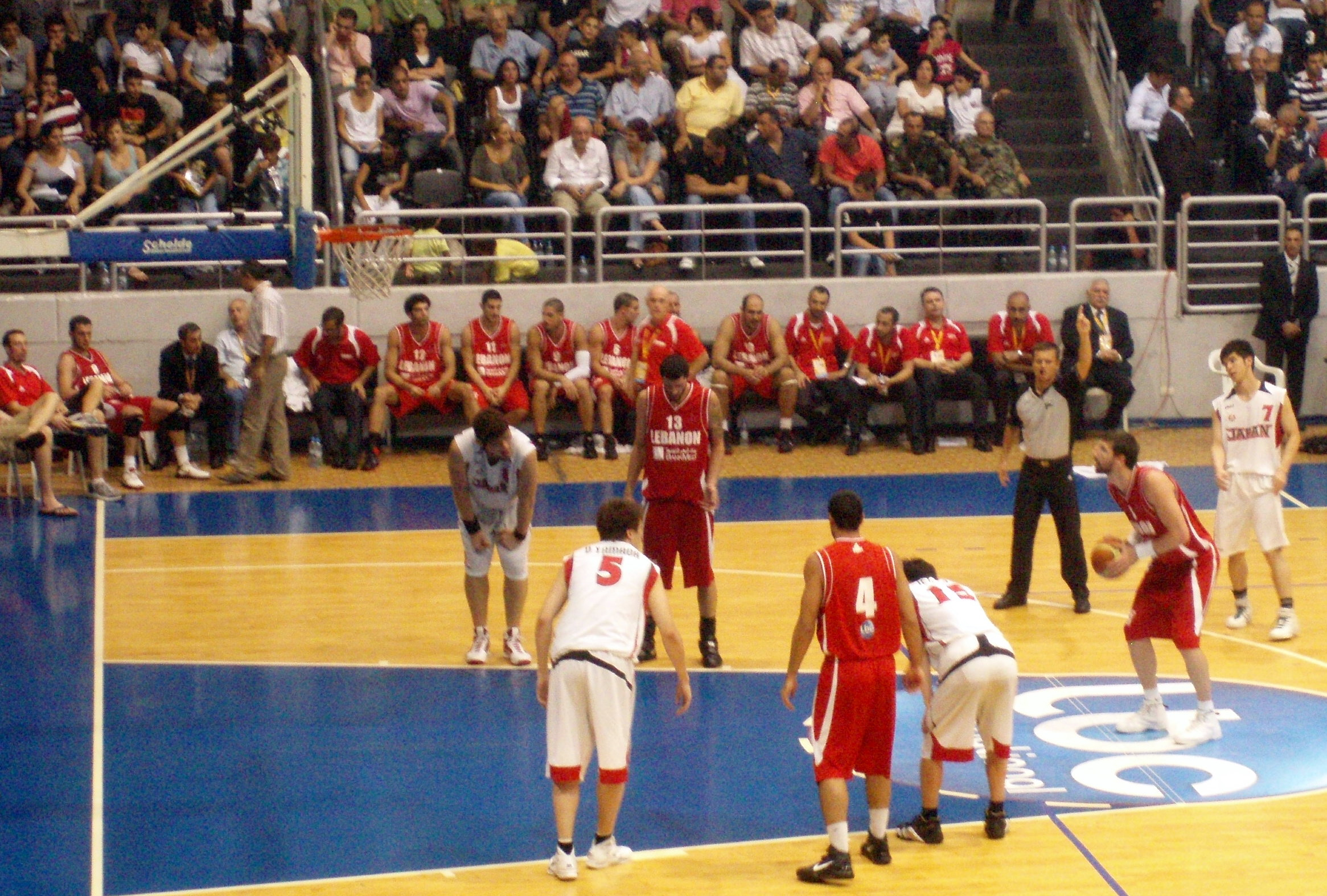 Jackson Vroman shooting a free throw with Lebanon against Japan